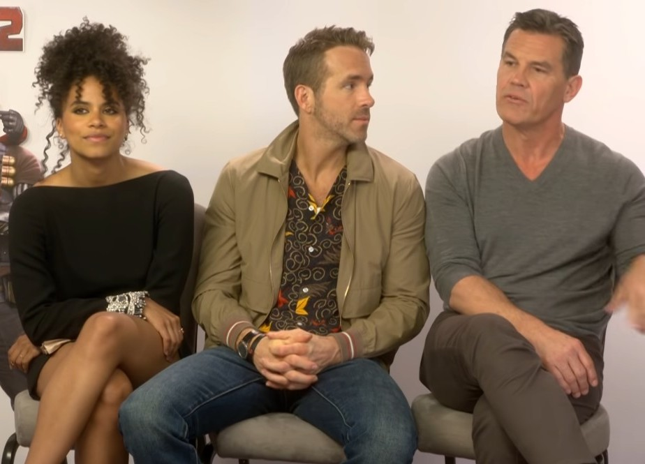 Cast from the film Deadpool 2